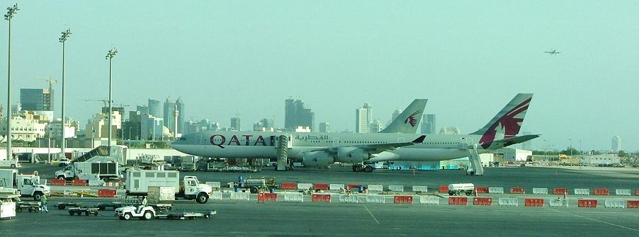 Doha - airport and Qatar Airways jet.